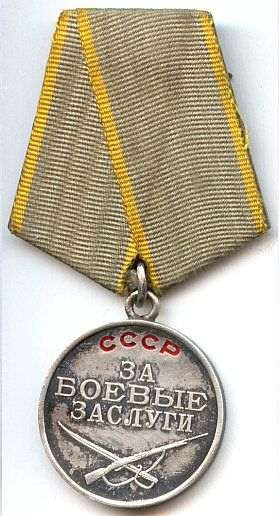 USSR Medal for Combat Service Crop of Commons picture Image:Medal-za-boevye-zaslugi USSR 105525744.jpg